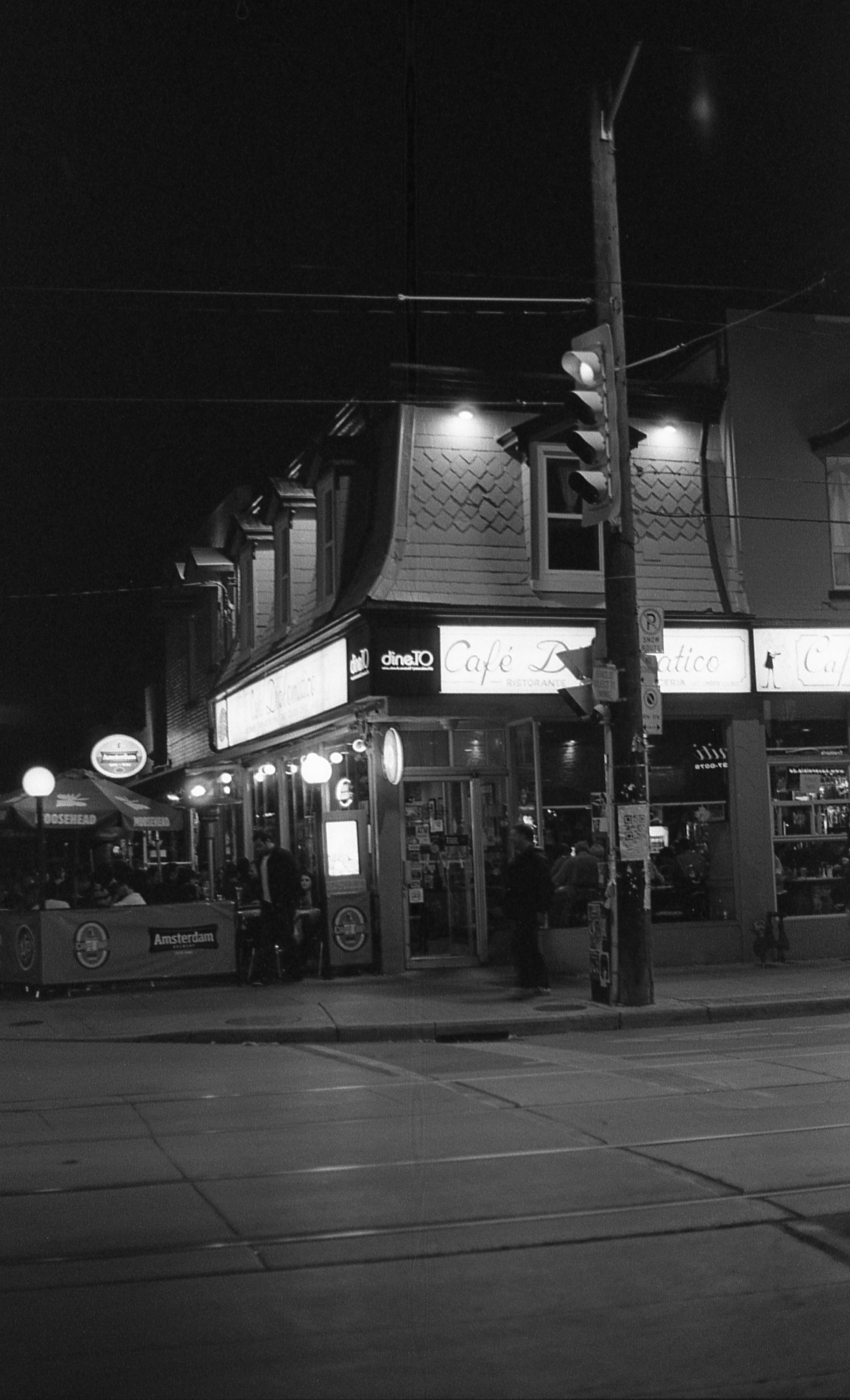 Little Italy, Toronto I tried a few night city shots. This one has a blasted watermark... ugh! Kodak Tri-X + HC 110 B 20C 6min Canon EOS Elan II + 50mm f1.8